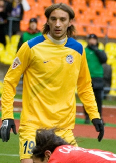 Bosnian forward Mersudin Ahmetović